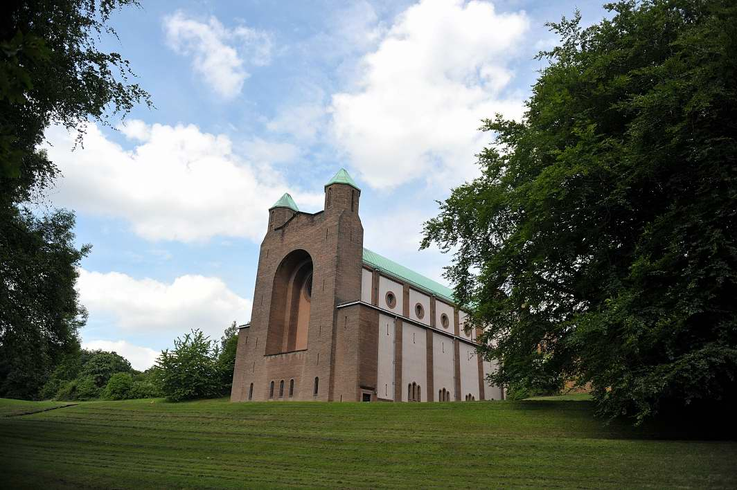 Photo of Church of the Resurrection, Mirfield